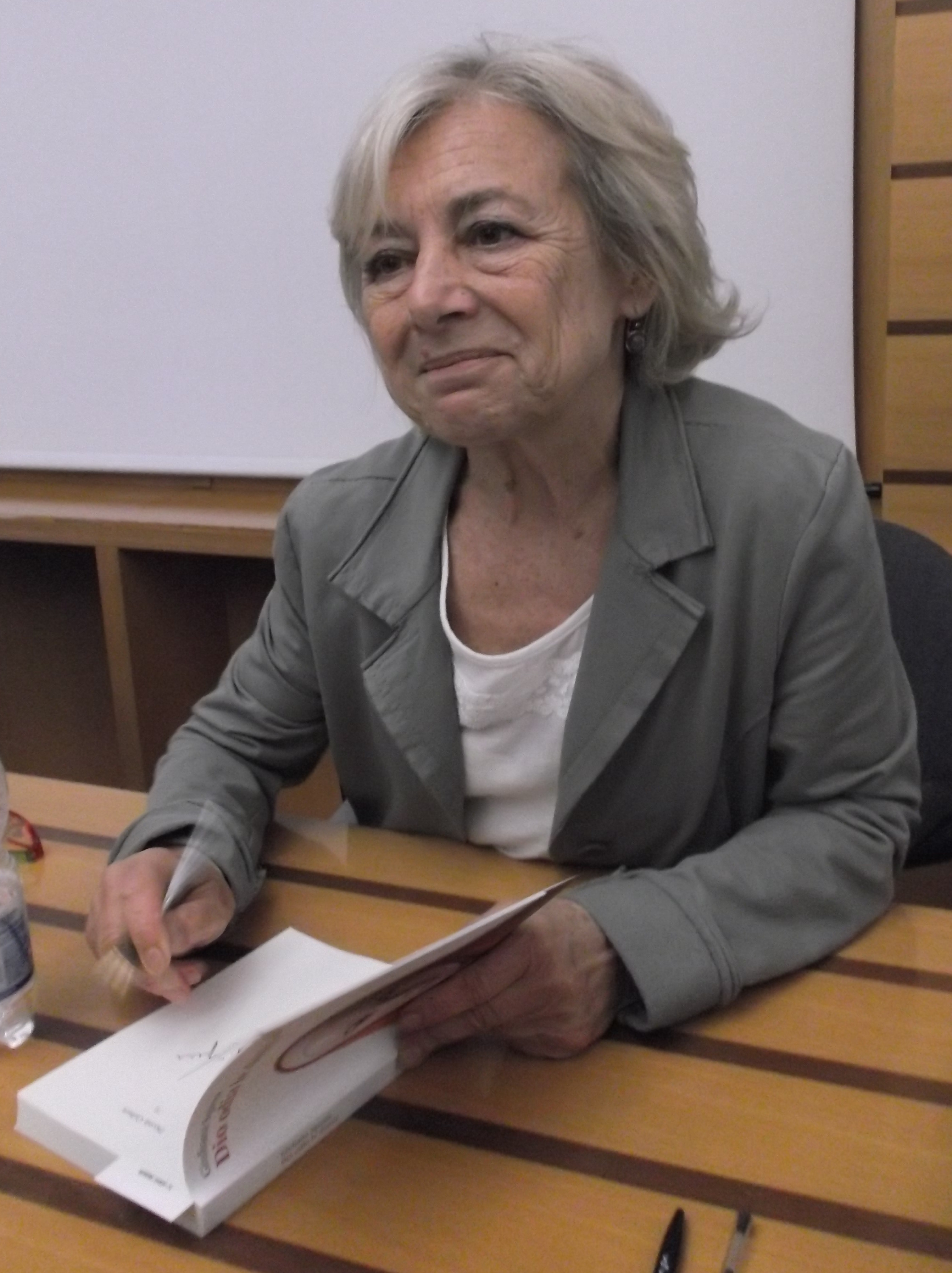 Italian journalist and writer Giuliana Sgrena during the presentation of her 2016 book Dio odia le donne (God Hates Women) organized by the Italian Union of Rationalist Atheists and Agnostics at the International Women's House, Rome